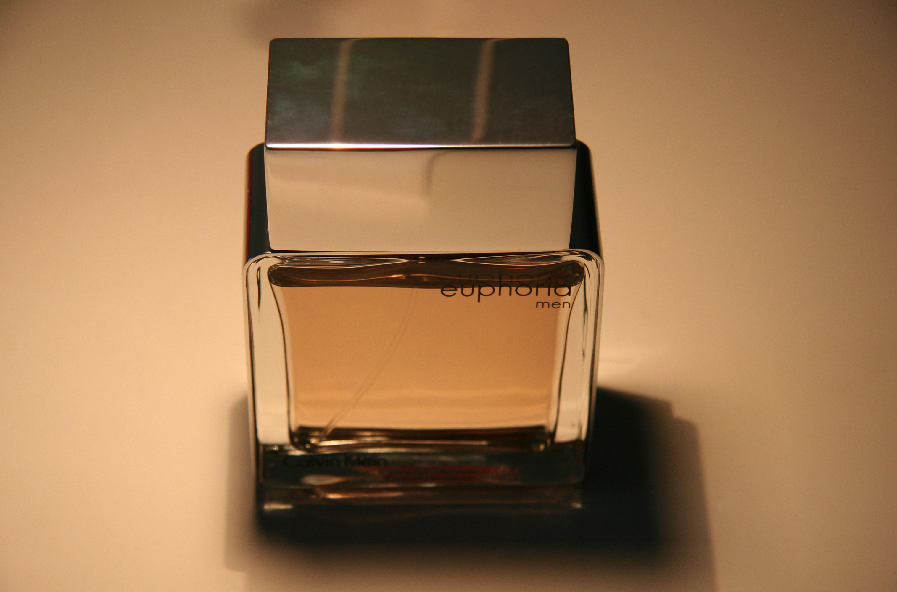 Ck Euphoria for Men perfume.